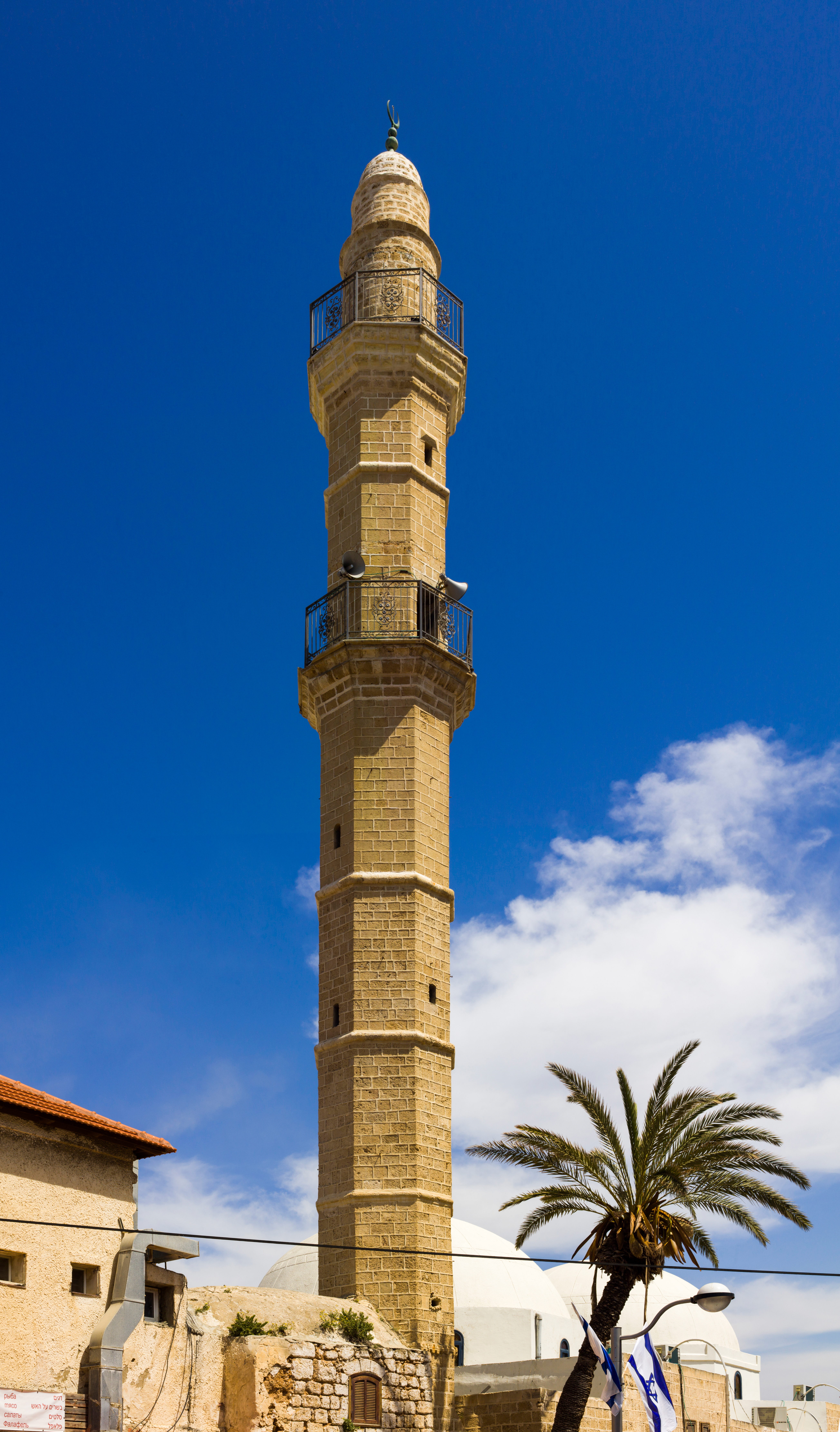 Minaret, Mahmoudiya Mosque (Arabic: جامع المحمودية) in Jaffa.